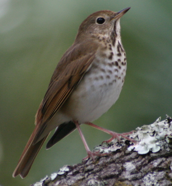 Hermit Thrush (Catharus guttatus) perched on a branch in Ocala National Forest, Florida.